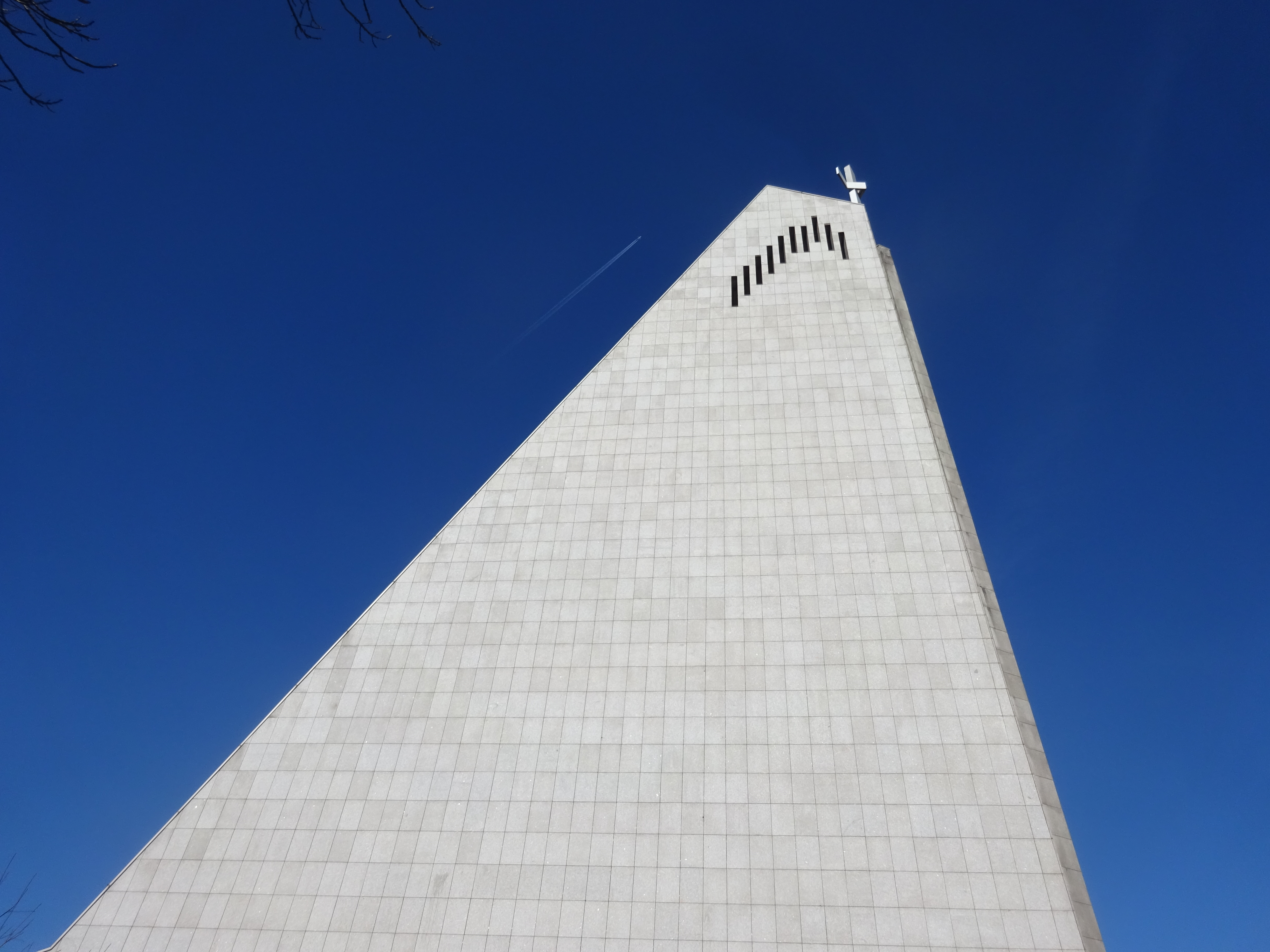 Mariä Heimsuchung, Wiesbaden, view of the rising concrete building from the south